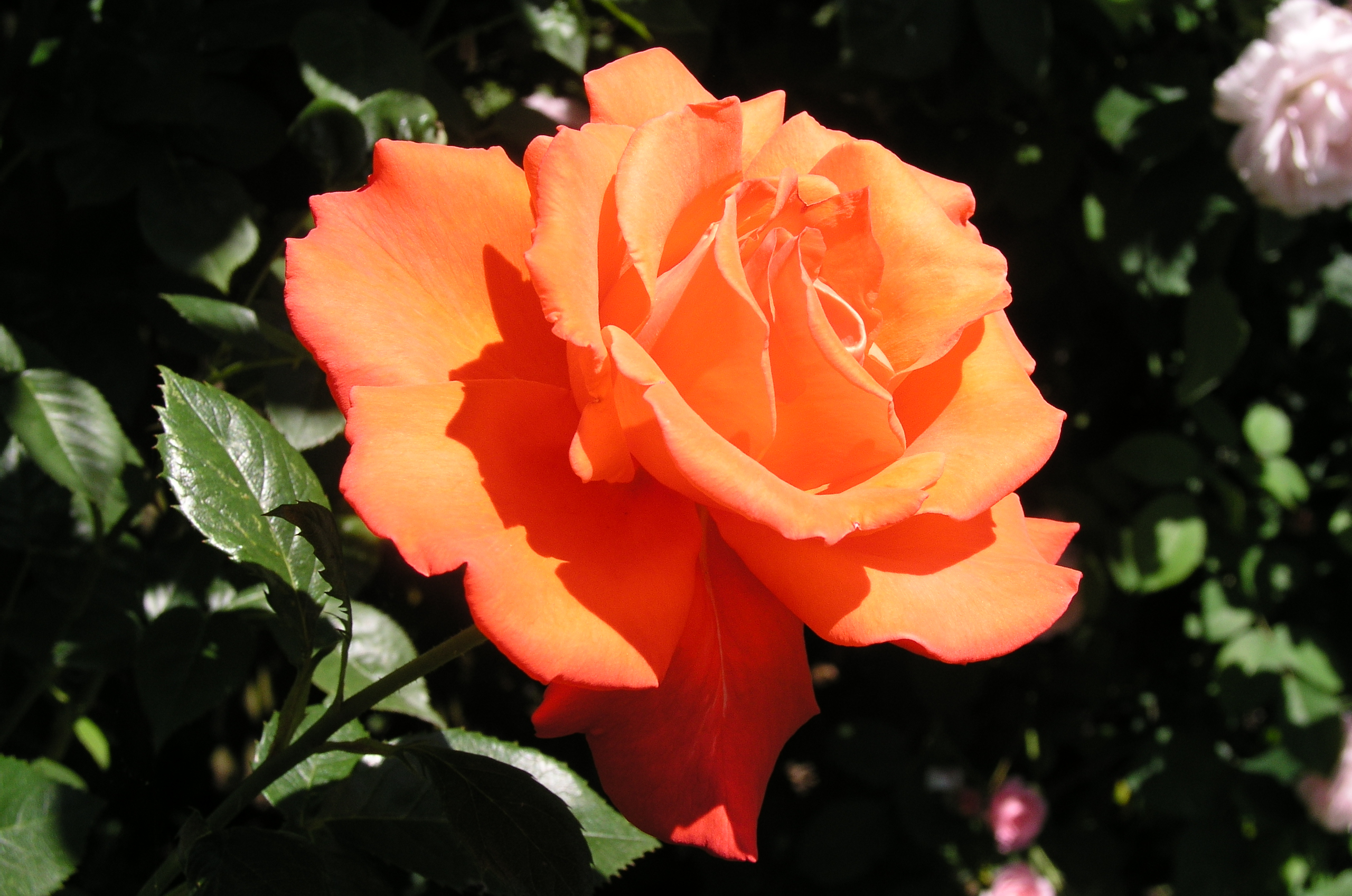 This is an image of a Rose called the Alexander Rose taken by myself in my back garden of my house in the United Kingdom. The rose was planted in 1997.